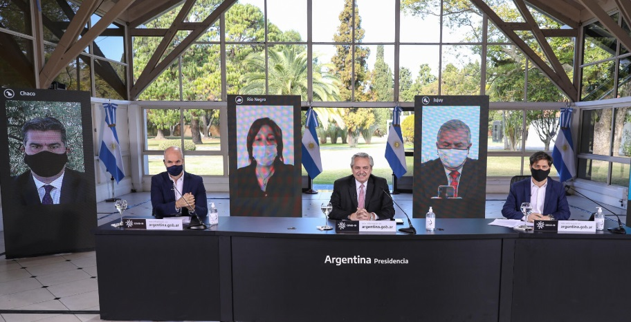 Argentina. Coronavirus Press conference. President Alberto Fernandez (center). At his right Horacio Rodrígez Larreta (Chief Government Buenos Aires City); at his left Axel Kicilof (governor of Buenos Aires Province). Behind by streaming: left of image Jorge Capitanich (governor Chaco). Center of image Arabela Carreras (gov. Río Negro). Right of image: Gerardo Morales (gov. Jujuy)